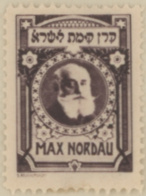 Sealing stamp of the Jewish National FundMax Nordau.